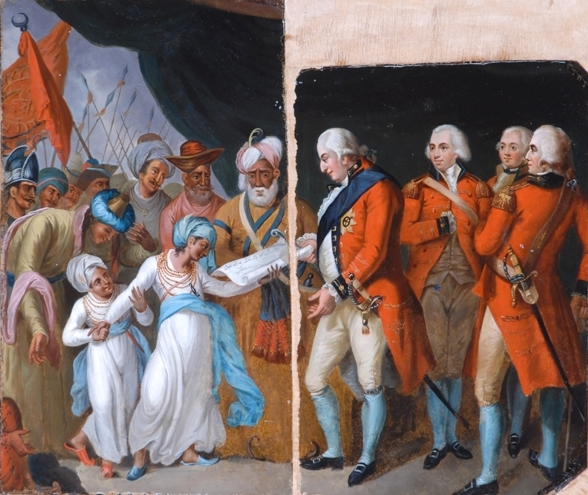 An two-part oil painting on metal, depicting British General Charles Cornwallis receiving as hostages two sons of Tipu Sultan at the end of the Third Anglo-Mysore War in 1792.